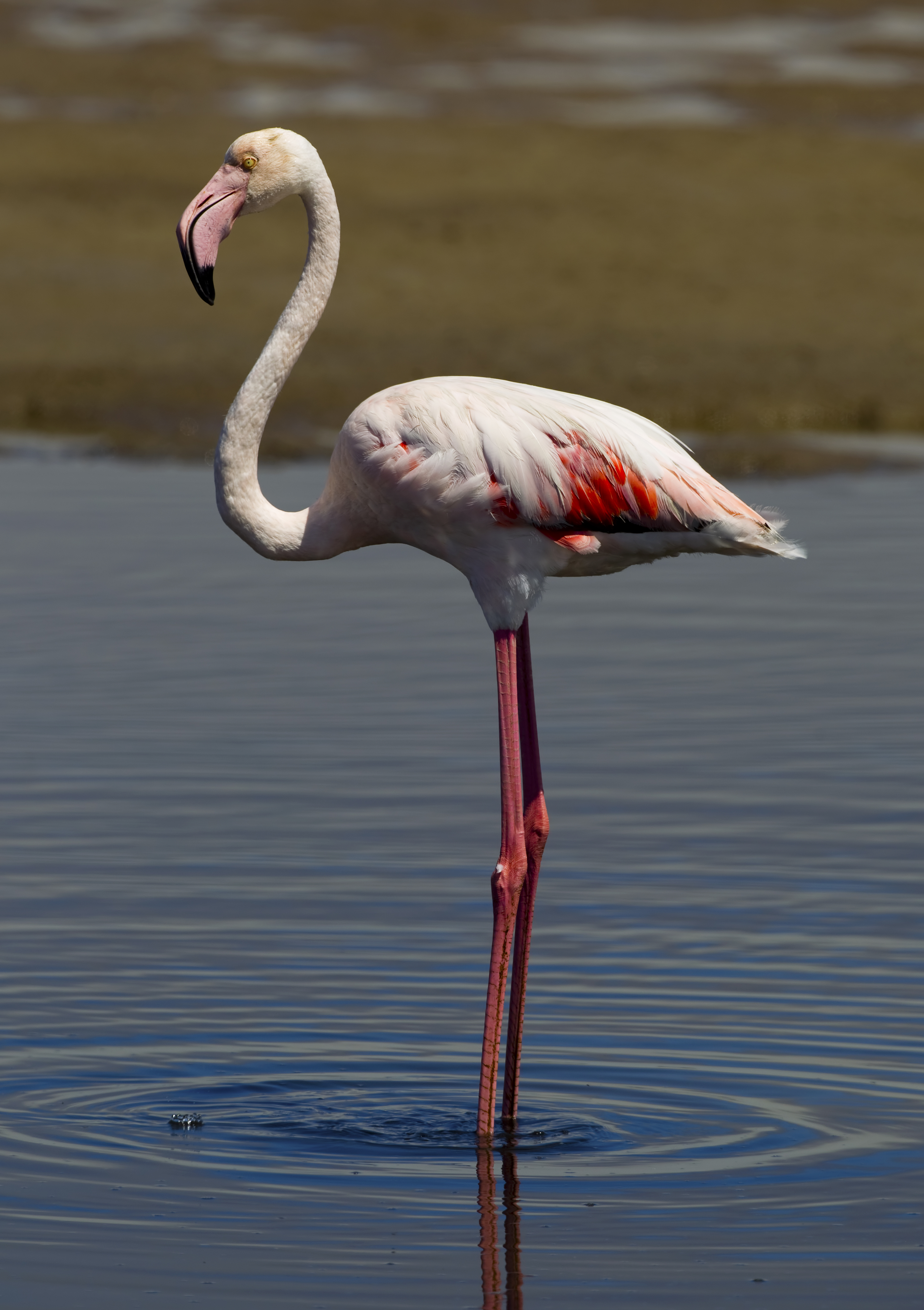 Greater flamingo in Walvis Bay